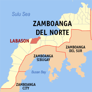 Map of the Zamboanga city showing the location of Labason